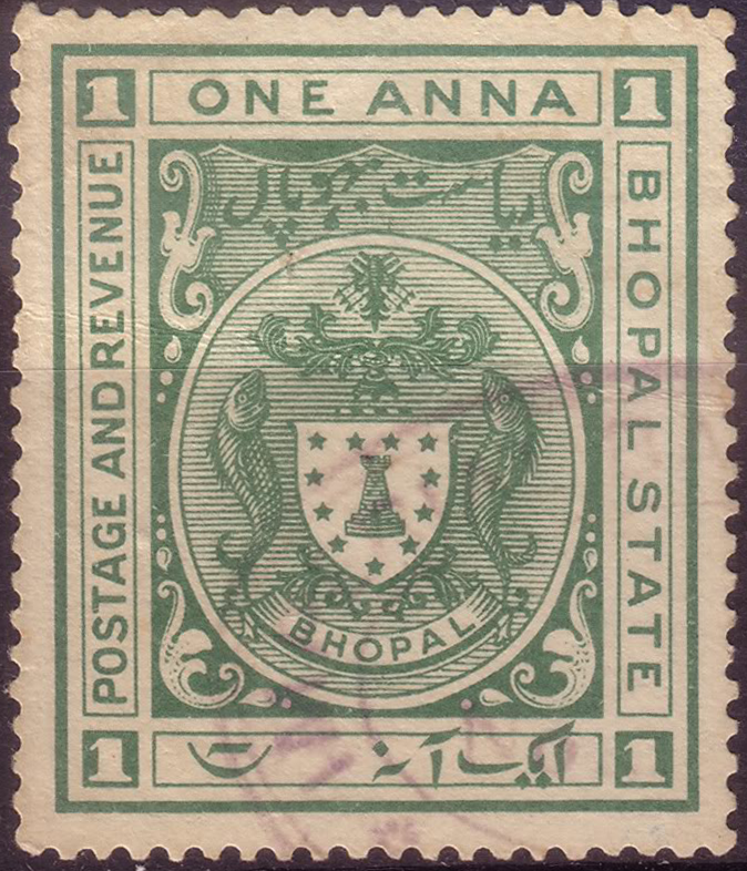 Bhopal Government postage stamp. 1 Anna.